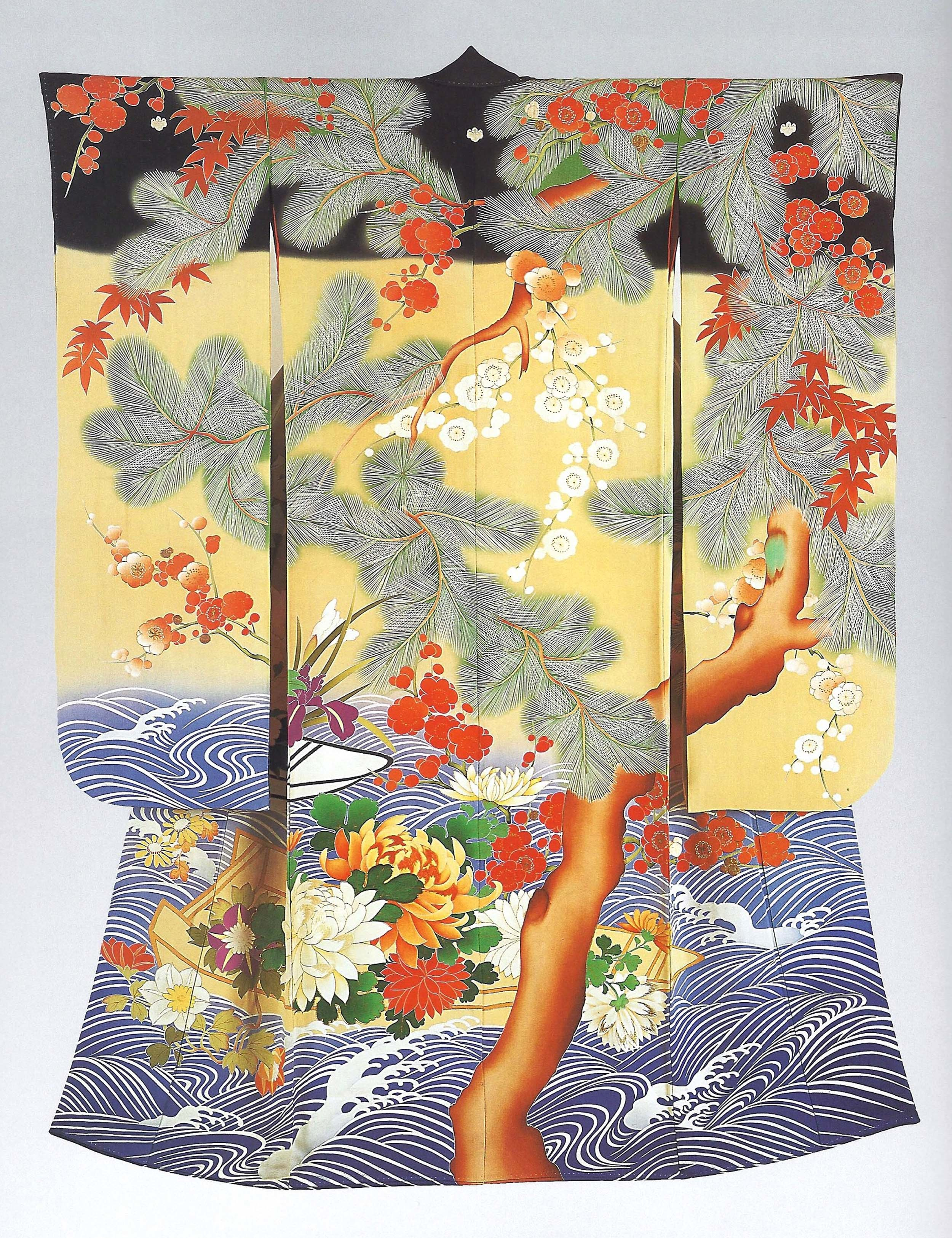 Kimono for a Young Woman (Furisode). From the Khalili Collection of Kimono. Depicts a boat on swirling water, with pine tree, plum blossoms and maples. This item illustrates the combination of the bright colours characteristic of 20th century kimono, and the depictions of nature that are more typical of traditional designs. The decoration is made with artificial dye, embroidered with silk, silver and gold. This item is part of the Victoria and Albert Museum's "Kimono: Kyoto to Catwalk" exhibition running from 29 February 2020 to 21 June 2020